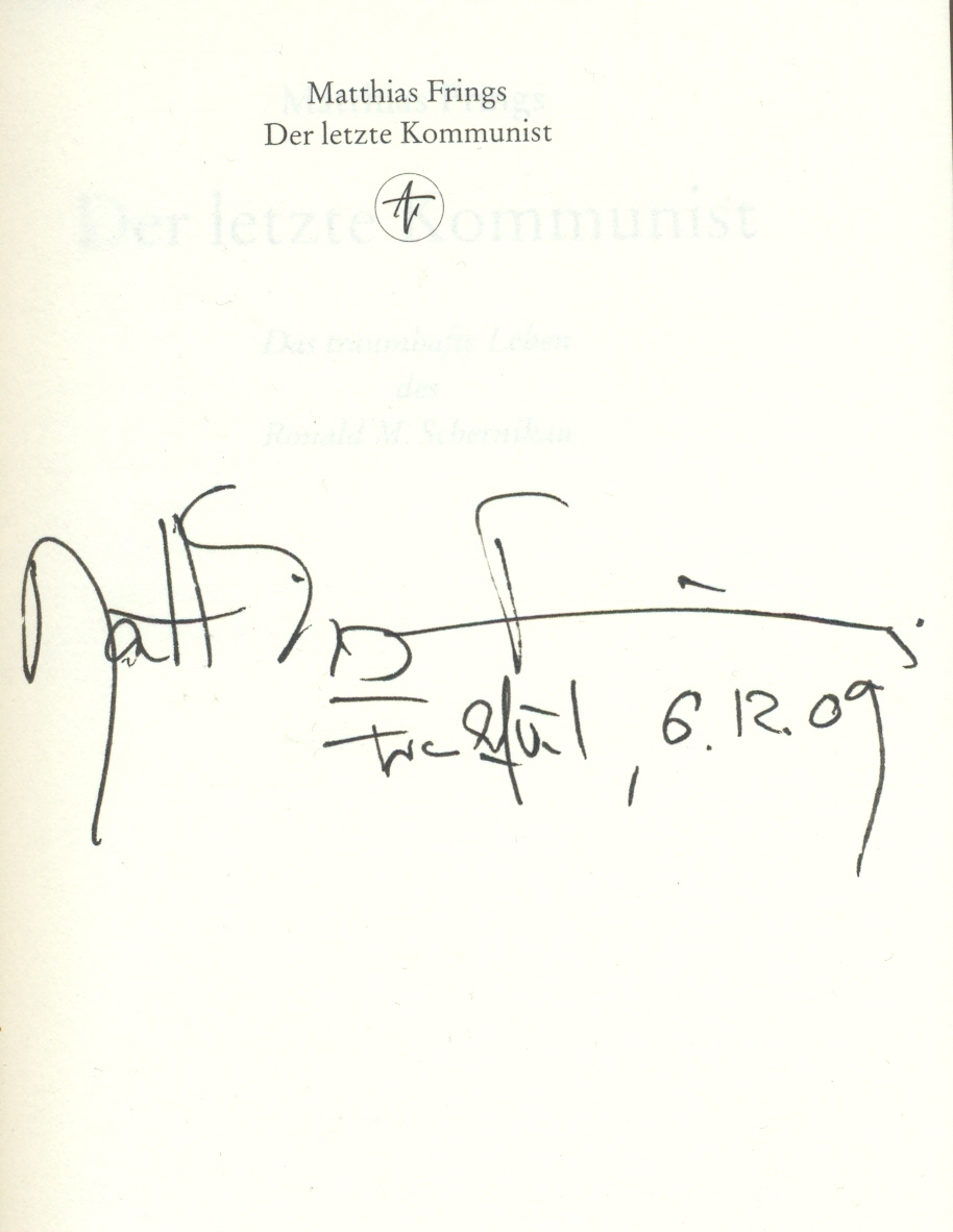 Autograph from Matthias Frings, German author, 2009 in Frankfurt am Main, Germany